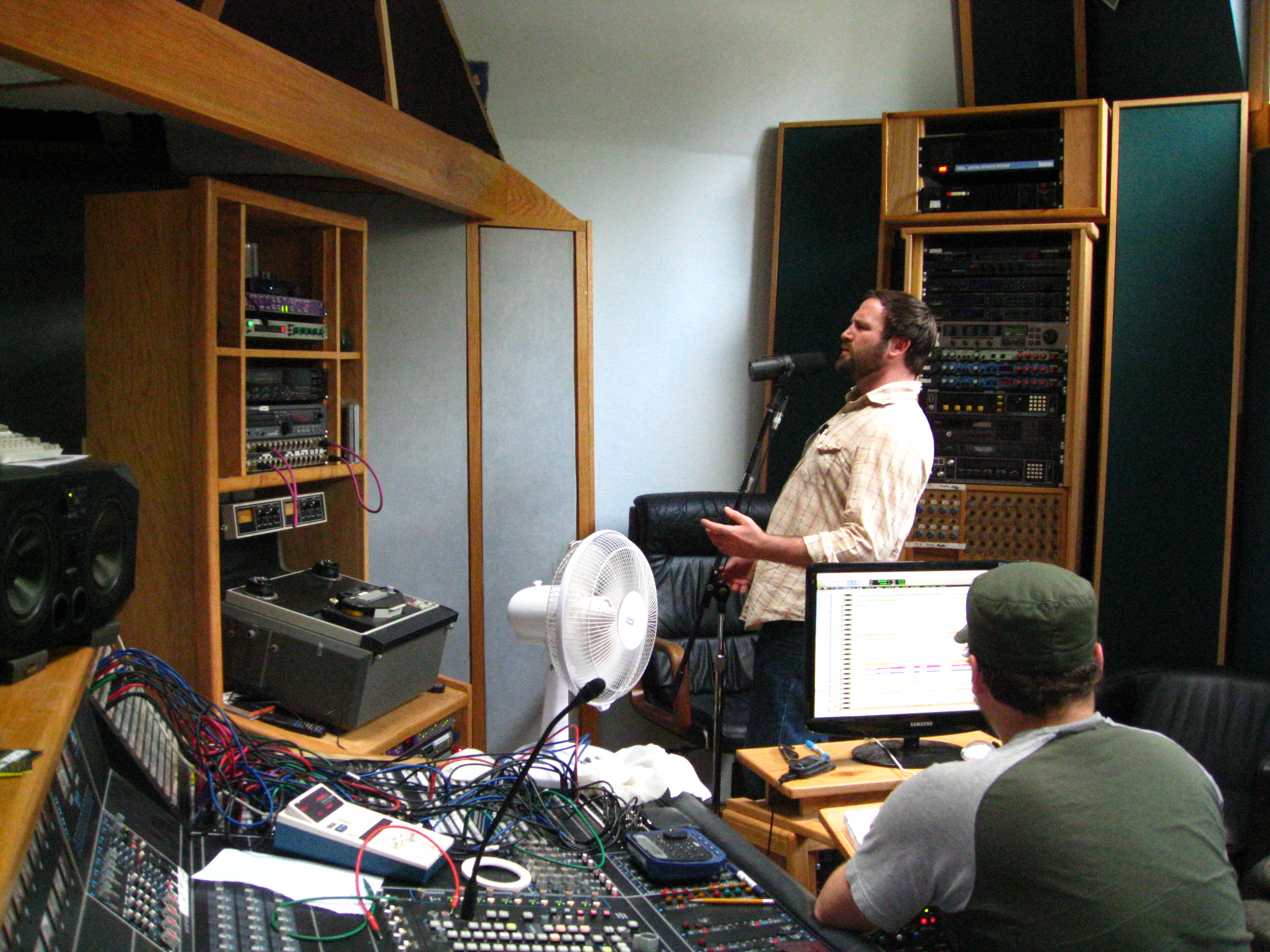 Supernatural Sound - vocal dubbing in the control room